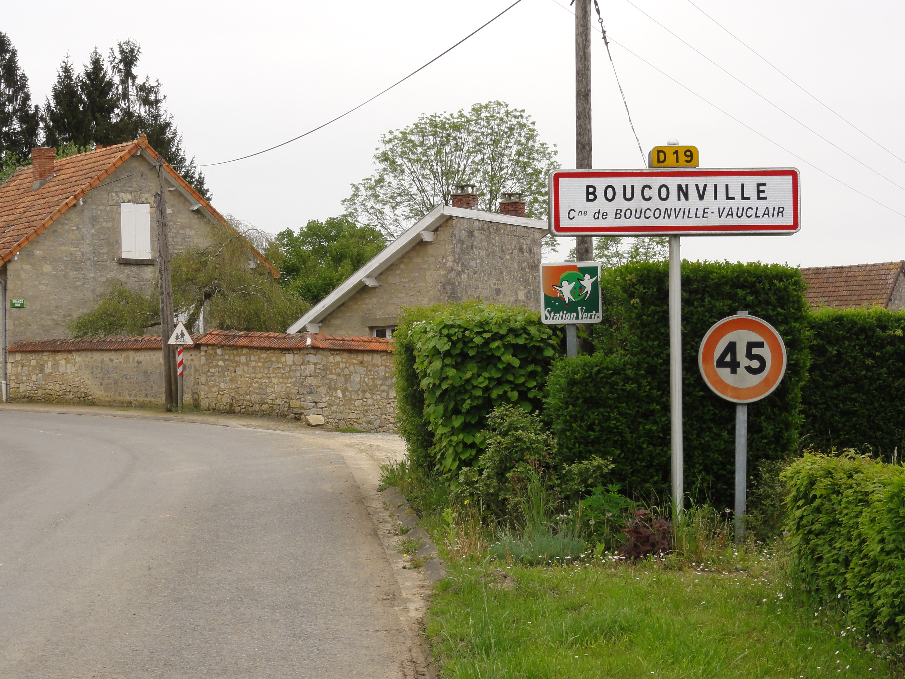 Bouconville-Vauclair (Aisne) city limit sign